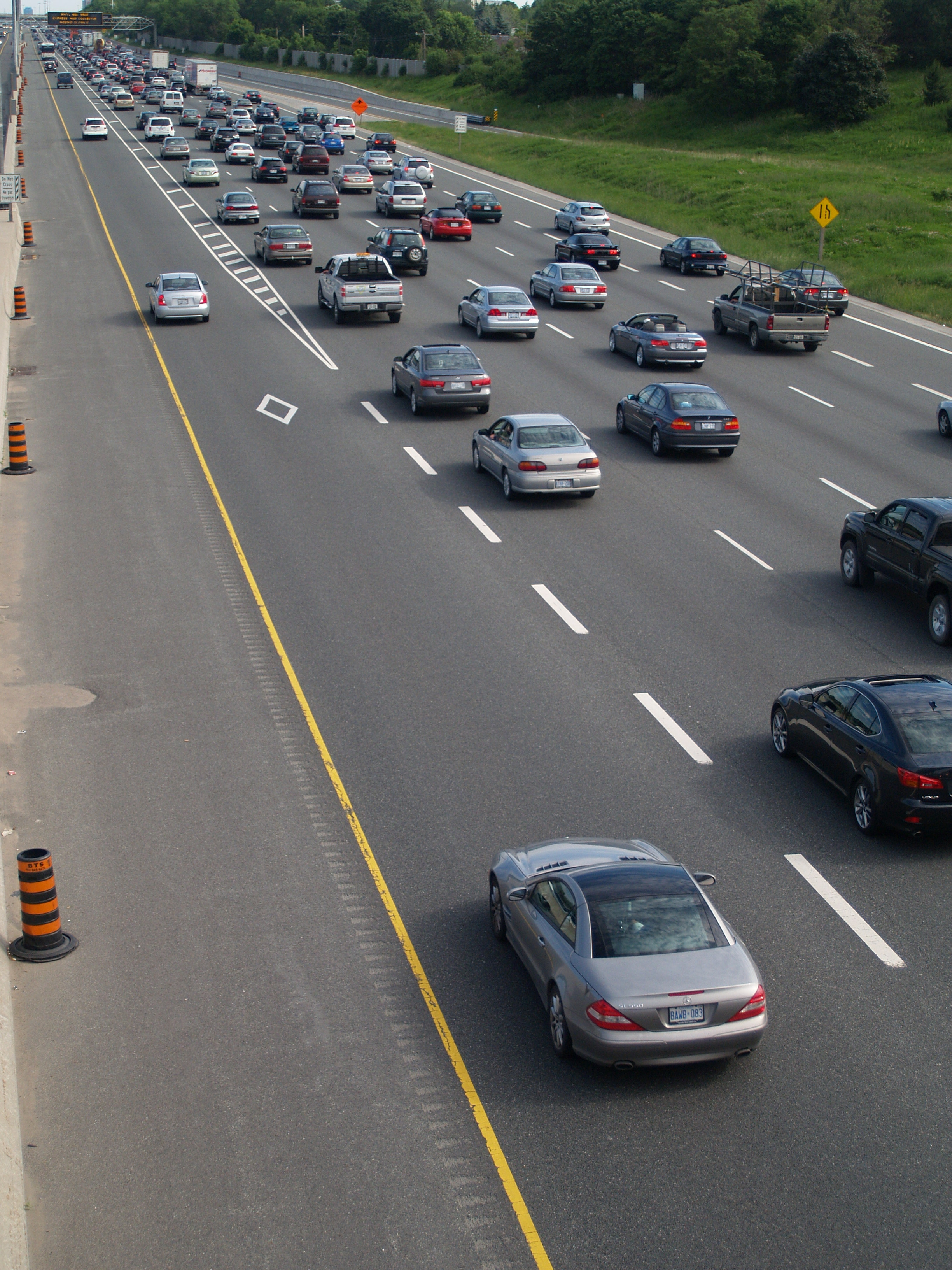 A high-occupancy vehicle lane on Ontario Highway 404, looking southwards from the Finch Avenue overpass.